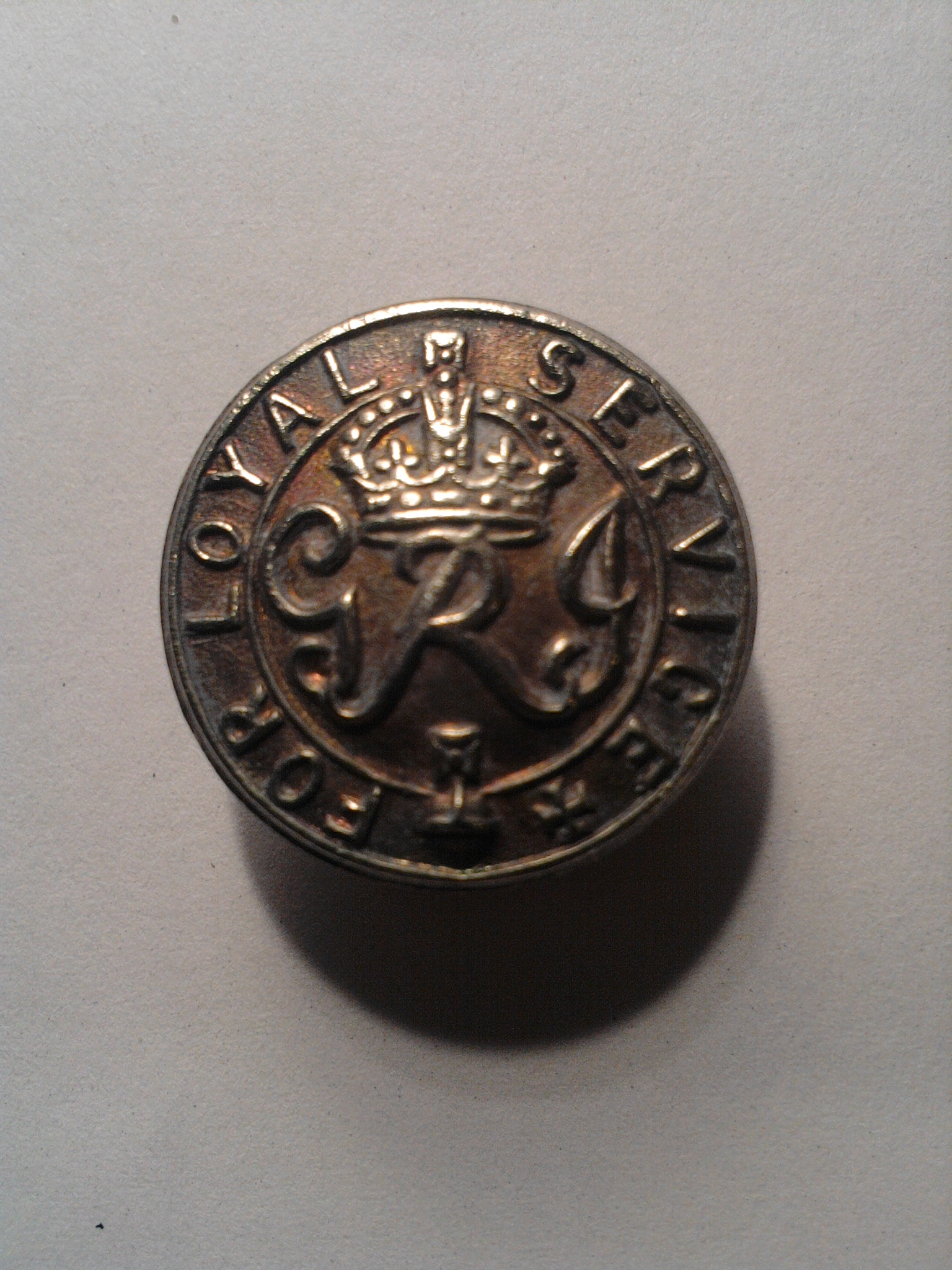 Small King's Badge for use in buttonhole